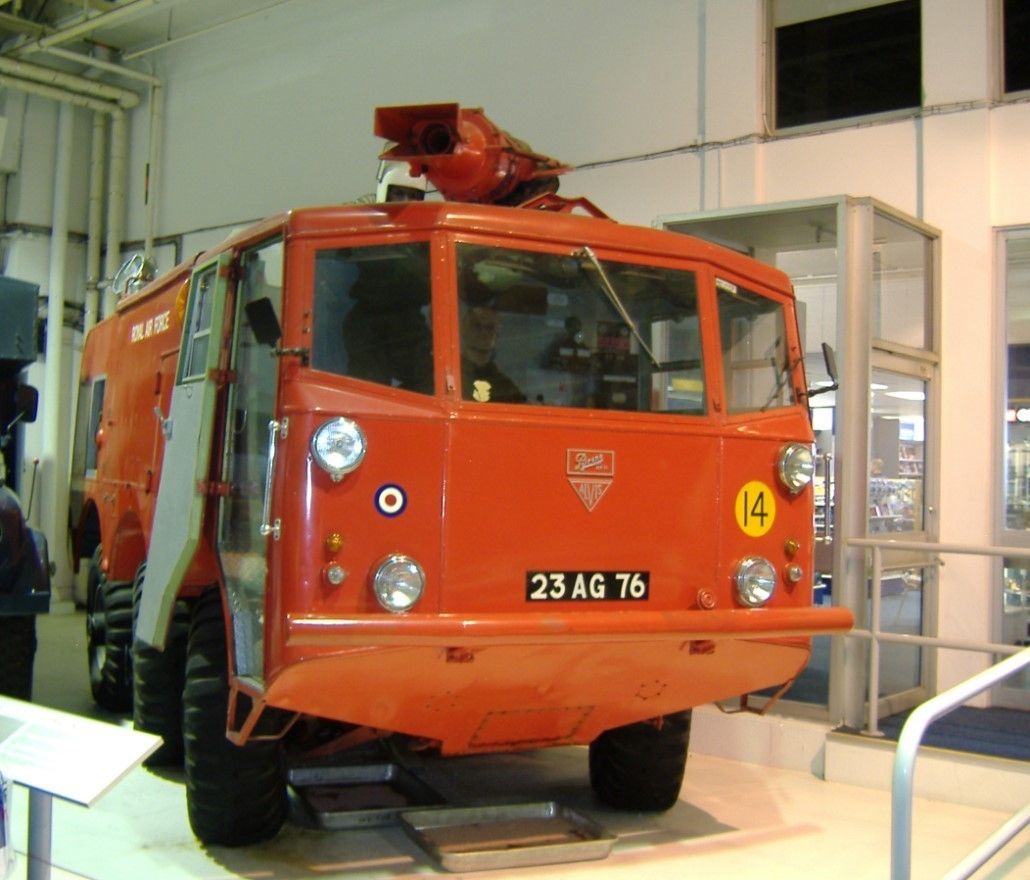 Photo of Alvis Salamander fire-engine fitted with Pyrene equipment.